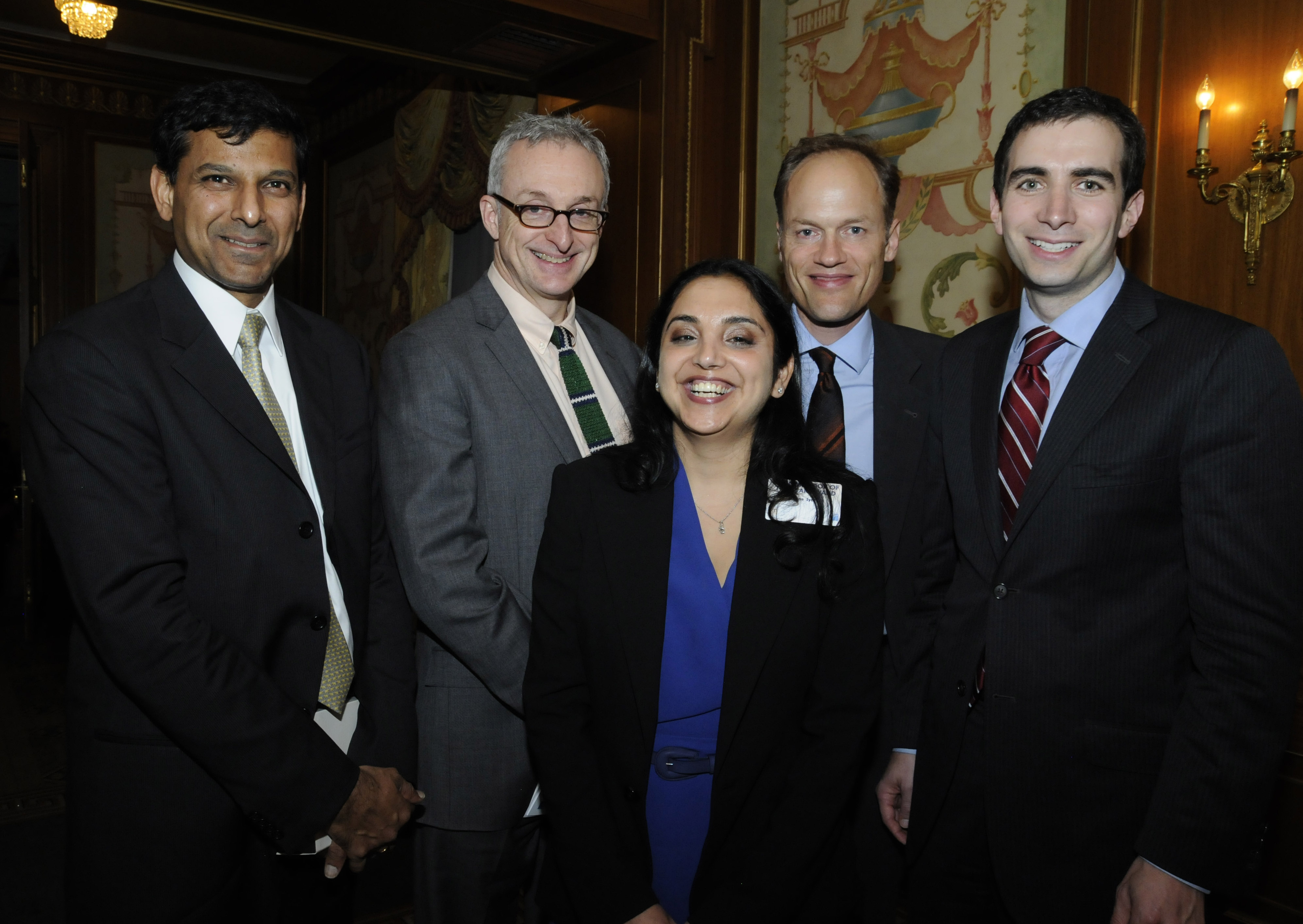 FT and Goldman Sachs Business Book of the Year 2010 short-listed authors (from left) Raghuram Rajan, David Kirkpatrick, Sheena Iyengar, Sebastian Mallaby and Andrew Ross Sorkin (not pictured: Michael Lewis) at the award ceremony.